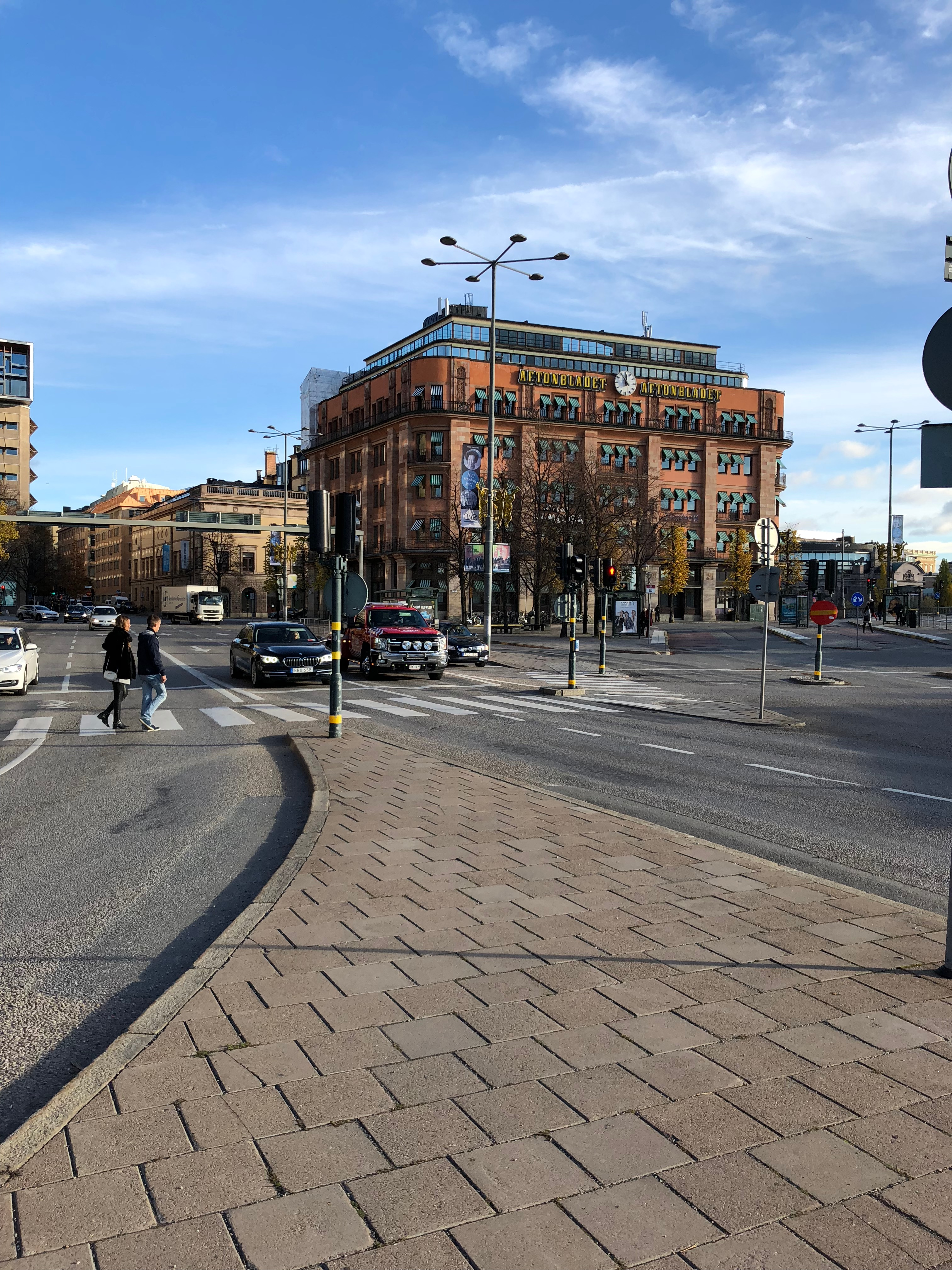 Stockholm Landscape building